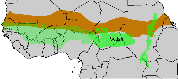 Own work, derivative of free-use files, shows African climatic regions